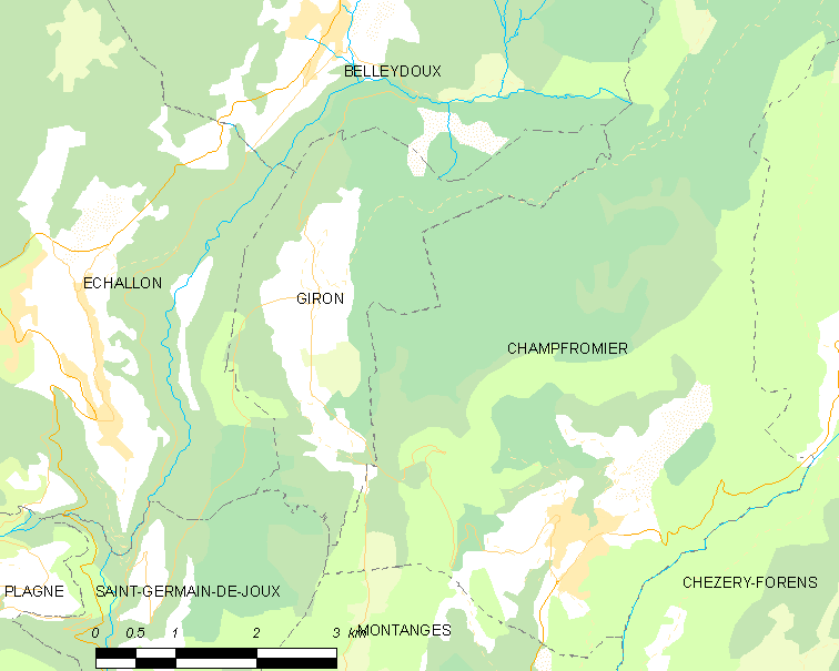 Map of French commune: Giron Map commune FR insee code 01174.png